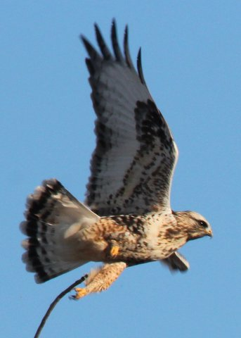 I found this bird at B.K. Leach CA (Elsberry, MO) on 1/4/13 - Photo taken by Tom Rauch and used with permission